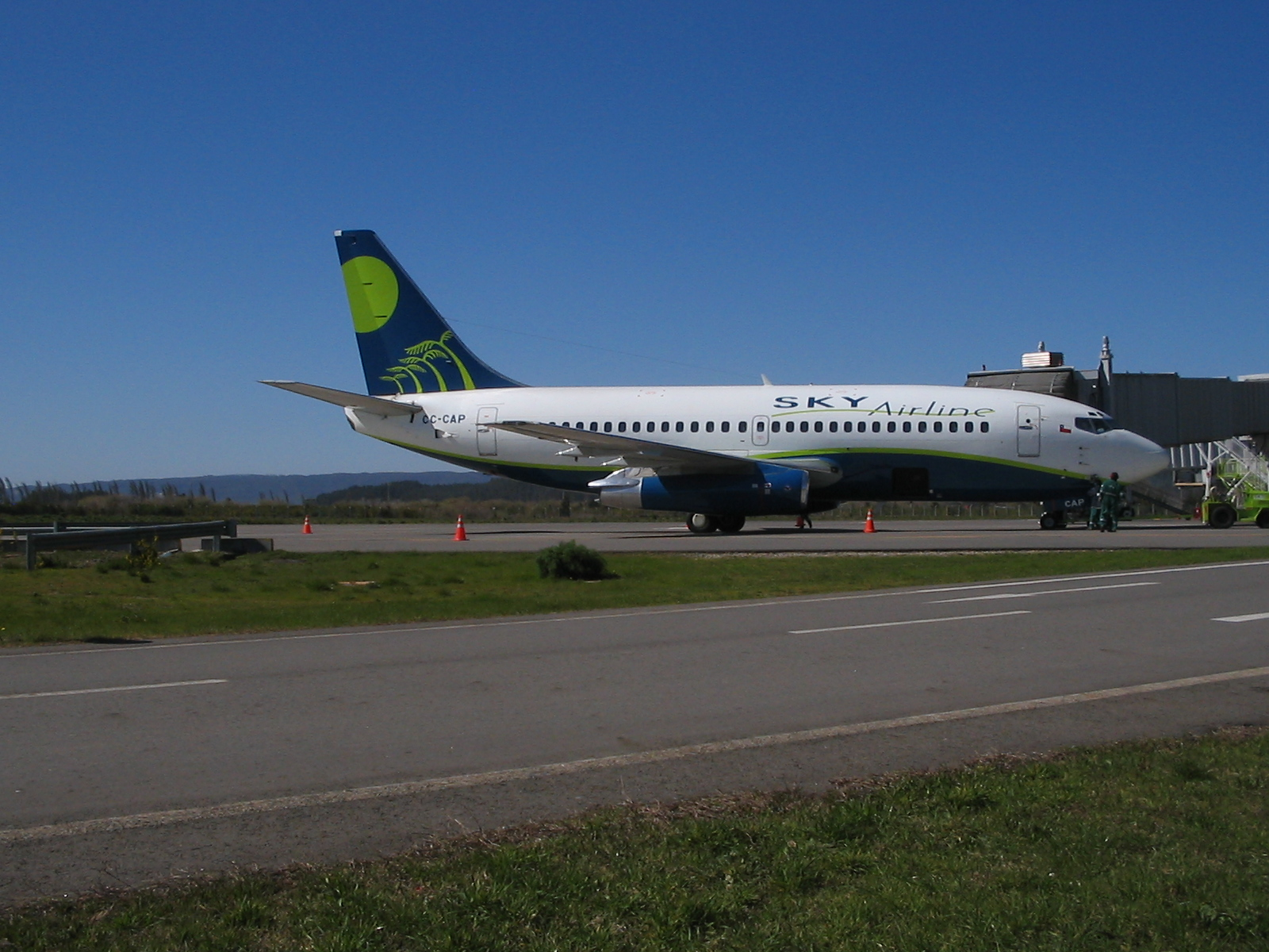 Sky Airline Boeing 737-200 (CC-CAP)